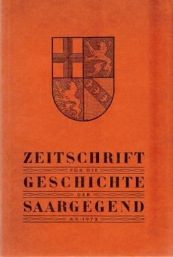 Title page of "zeitschrift fuer die Geschichte der Saargegend" (Journal for the history of the Saar-region)